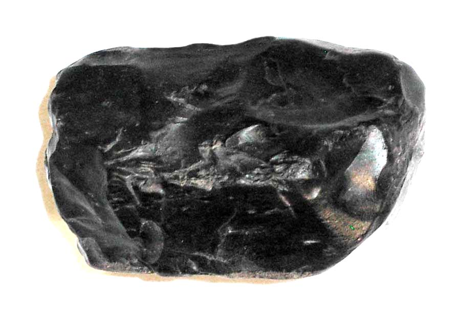 A flint nodule - from the Onondaga limestone layer, Buffalo, NY, USA.